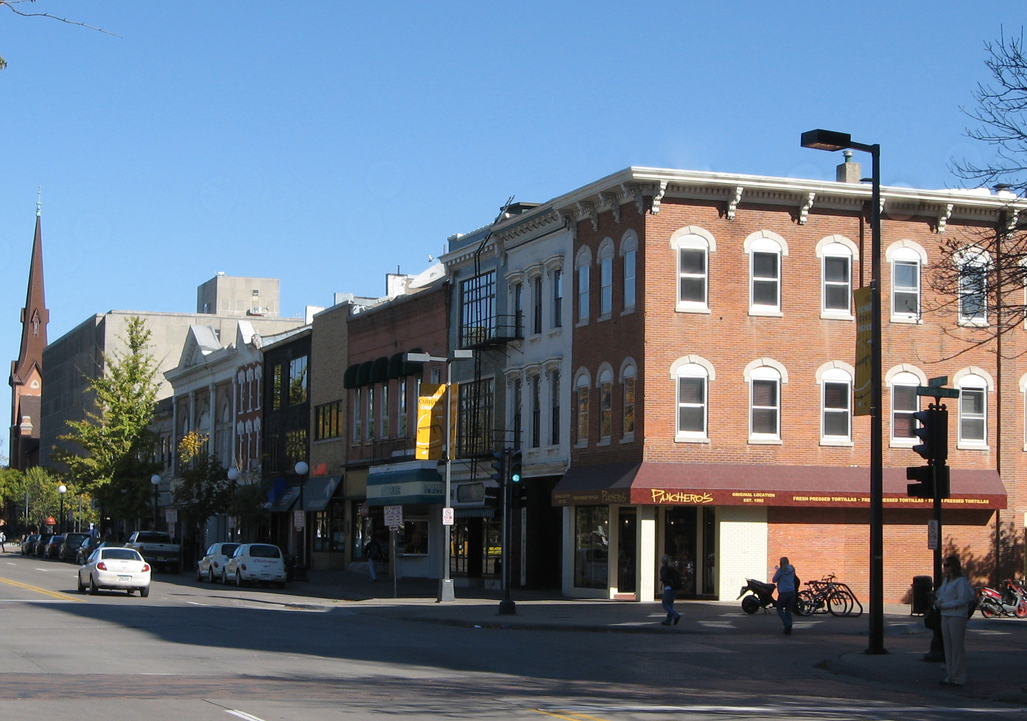 Clinton Street in Iowa City